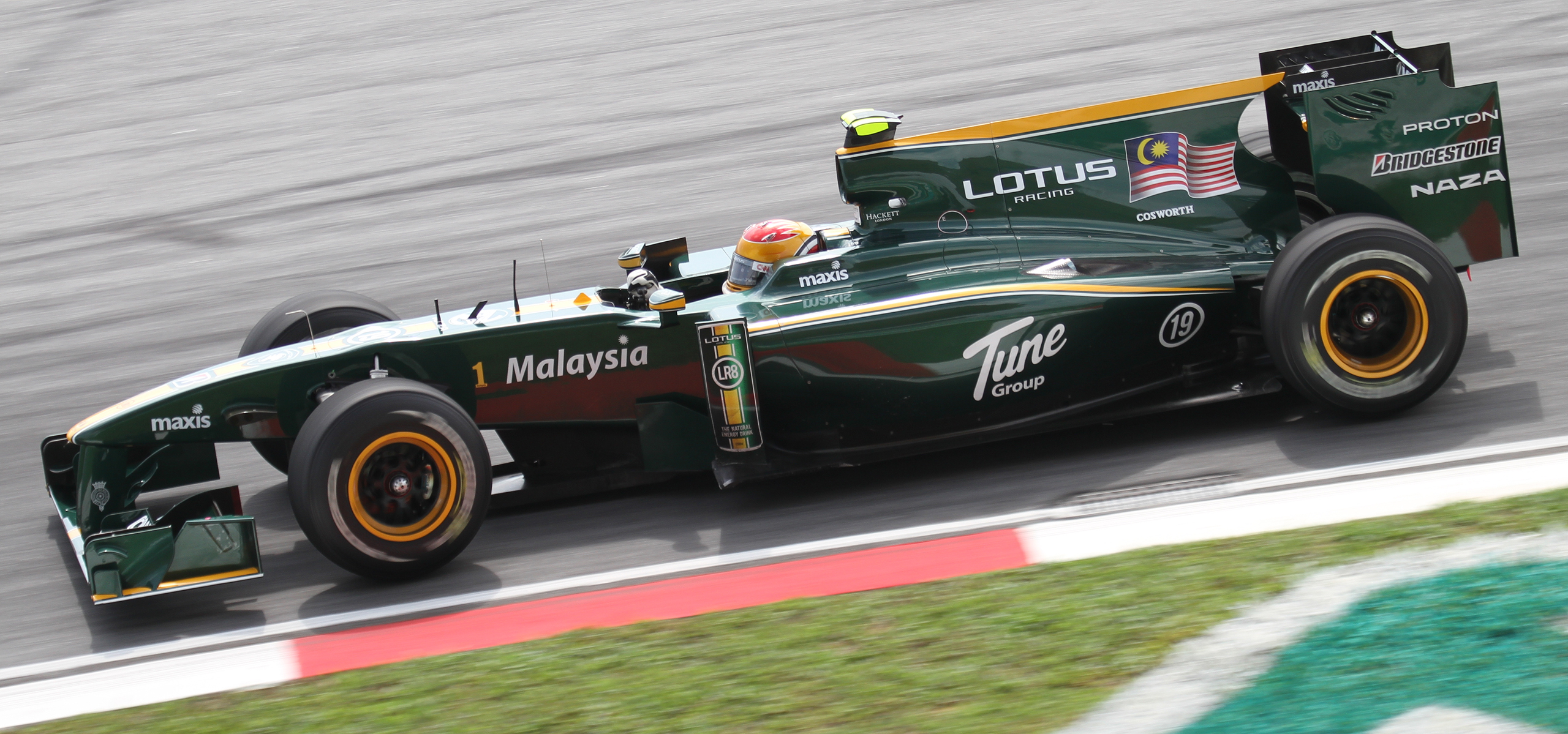 Formula One 2010 Rd.3 Malaysian GP: Fairuz Fauzy (Lotus) during Friday 1st Free Practice session as team's test driver.